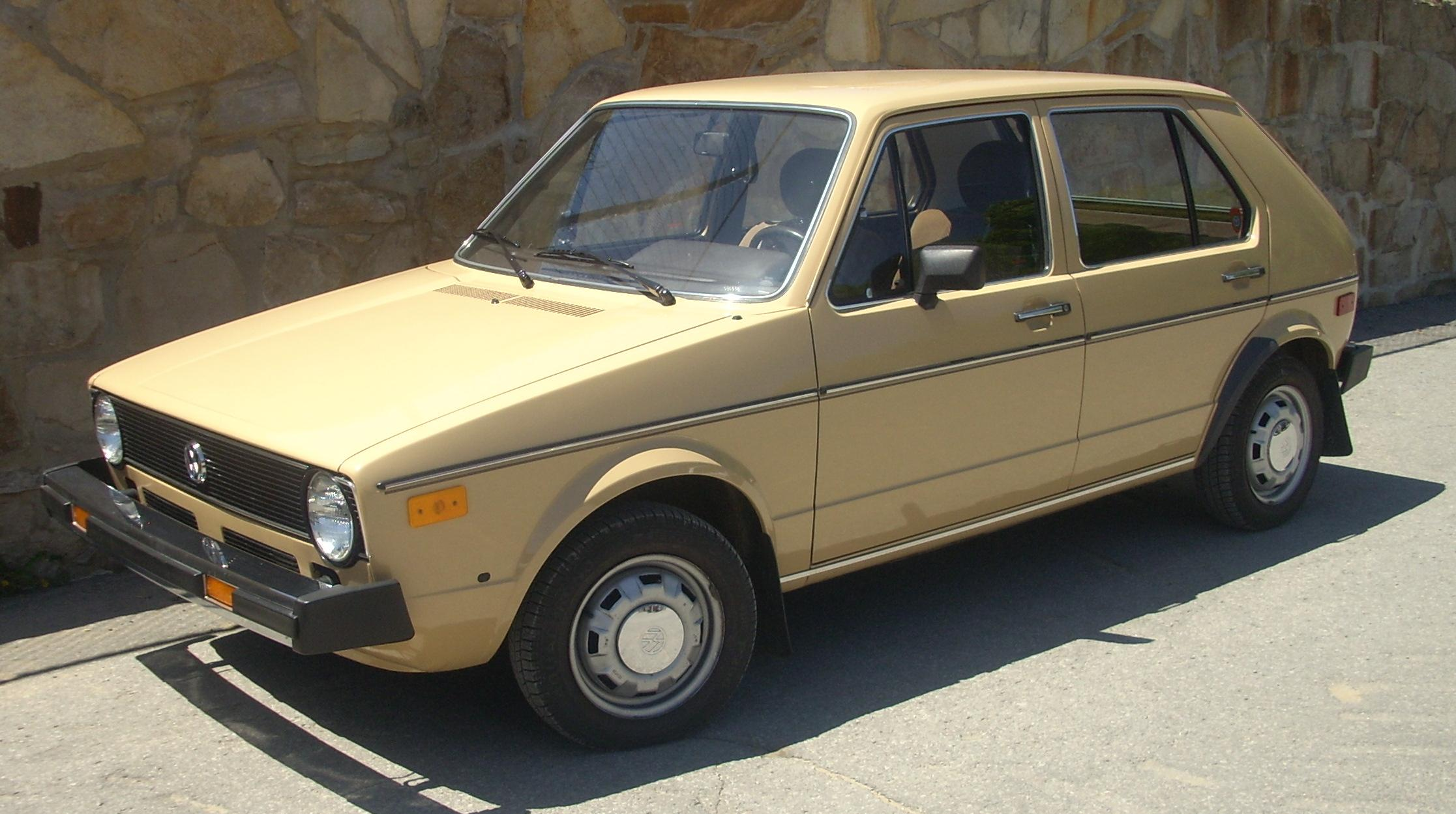 1976-1978 Volkswagen Rabbit photographed at the 2008 Hudson Auto Show.